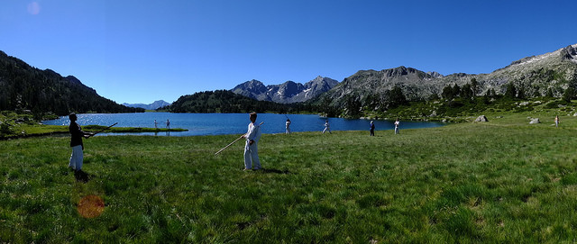 Mountain kenjutsu practice in Pyrenese, France.